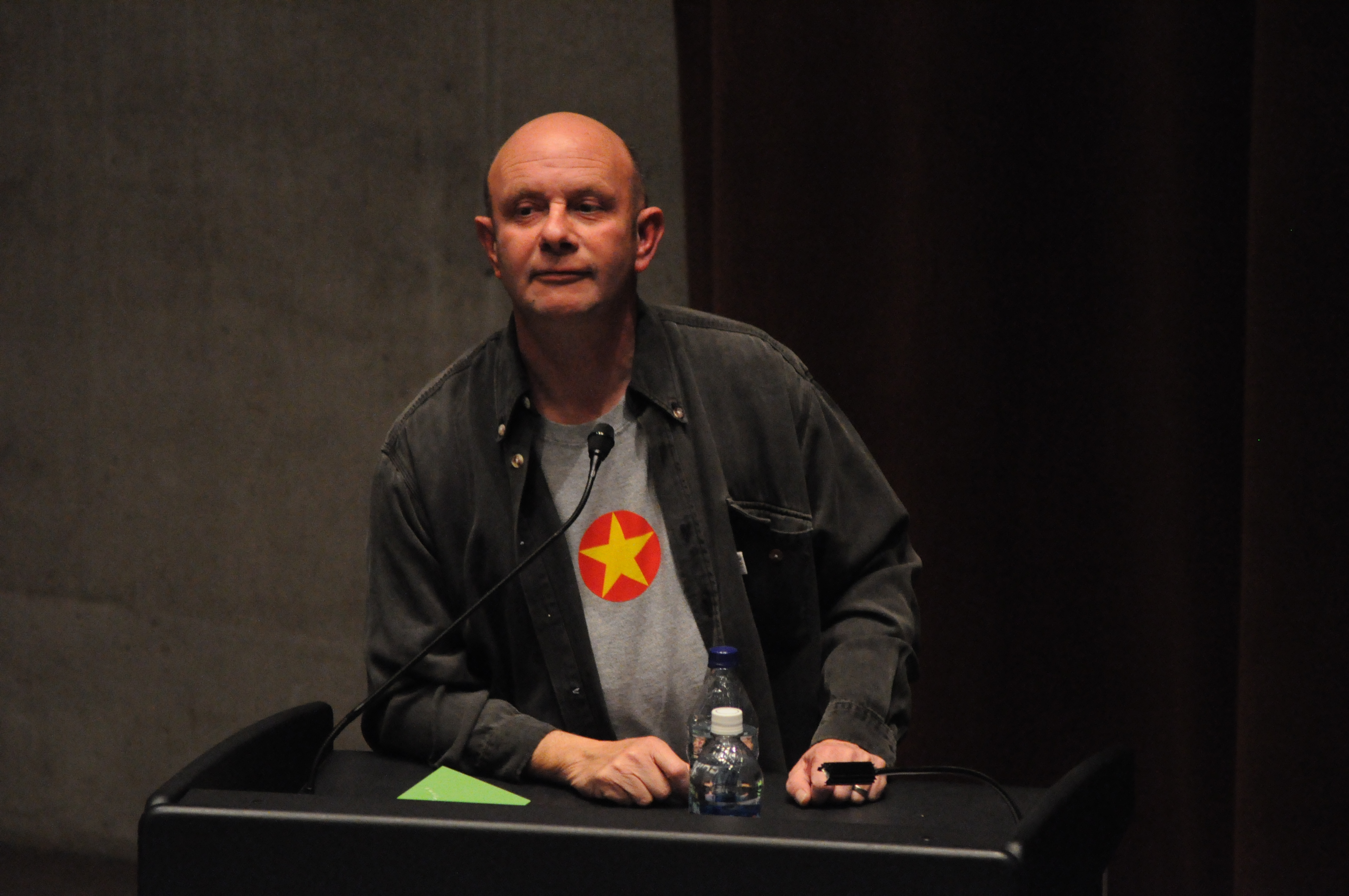 Nick Hornby giving a public reading at Central Library, Seattle, Washington.